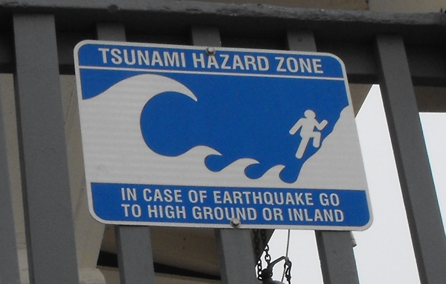 A cheery tsunami warning sign at Moonlight State Beach in Encinitas, California, USA.